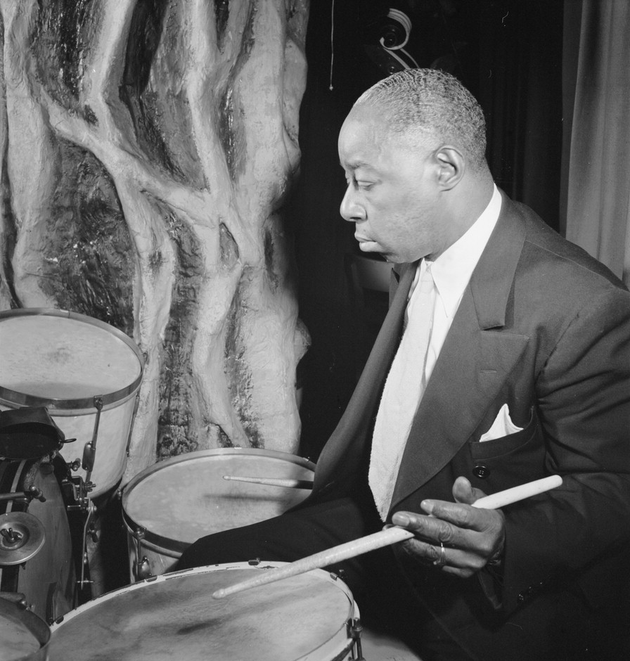 Portrait of Baby Dodds, Ole South, New York, N.Y.